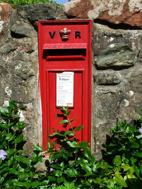 Post Box At Meigle, a hamlet just off the A78 south of Skelmorlie.